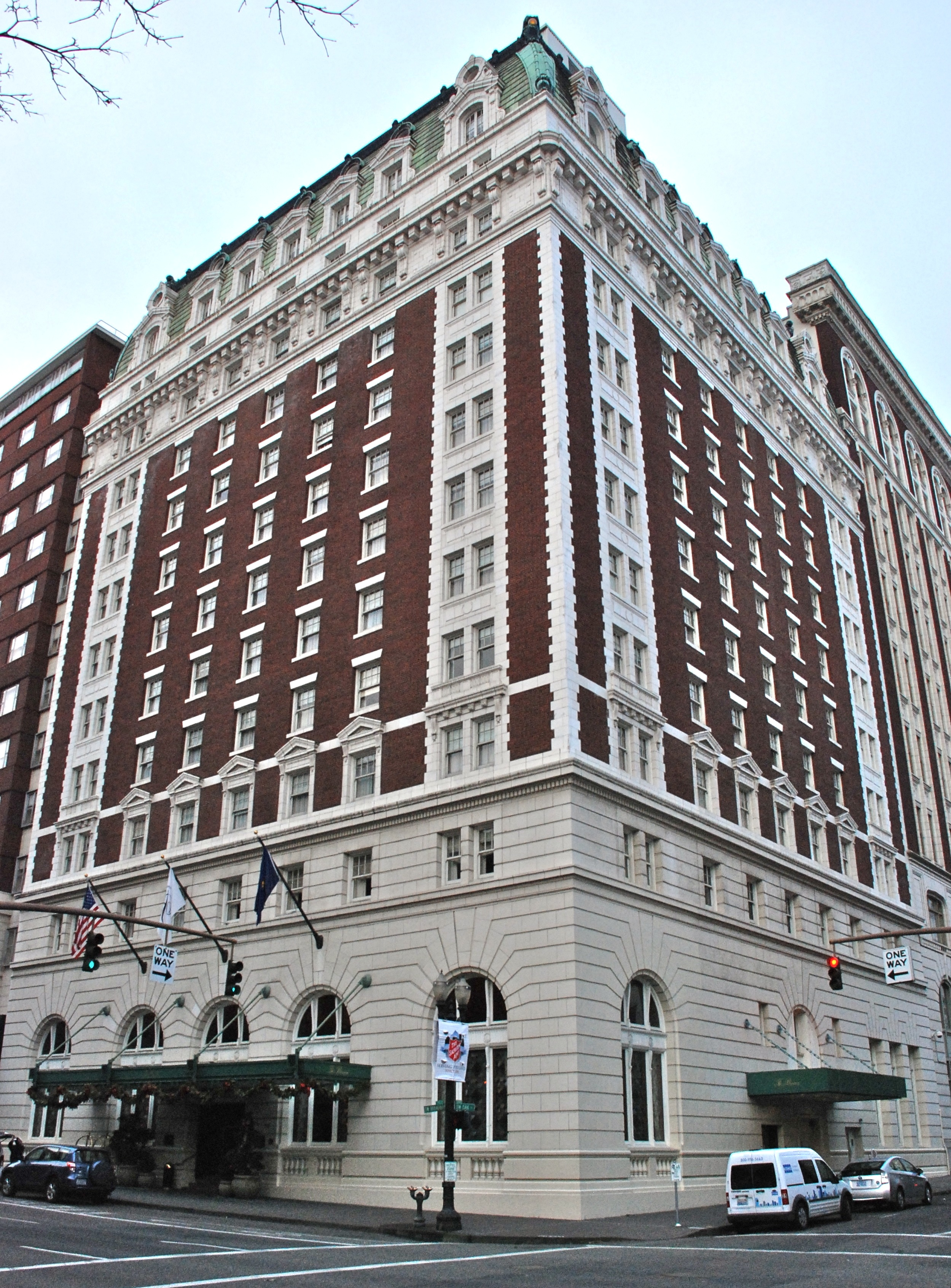 The Benson Hotel, in Portland, Oregon, was built in 1912–13 and is listed on the U.S. National Register of Historic Places.